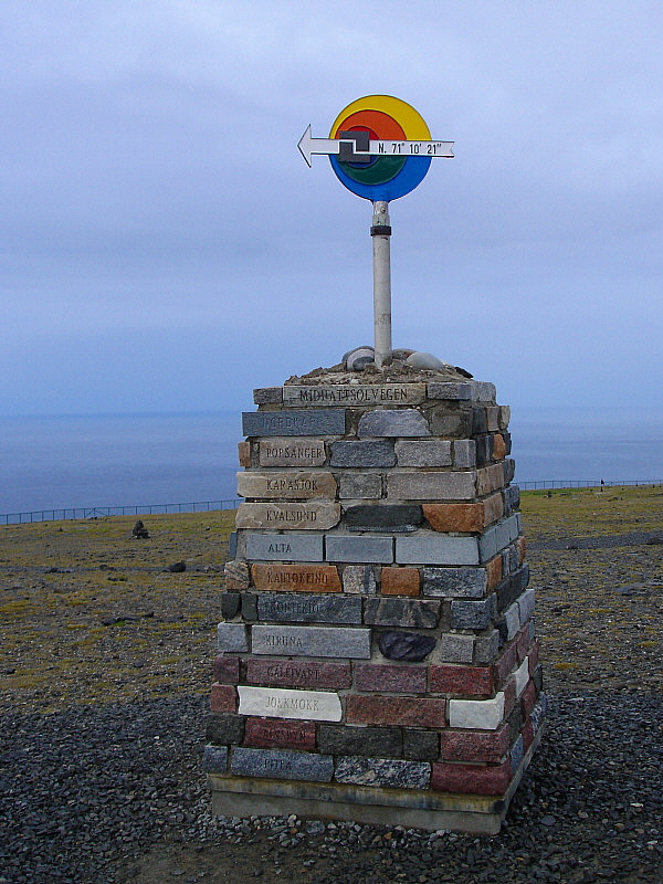 North Cap Monument